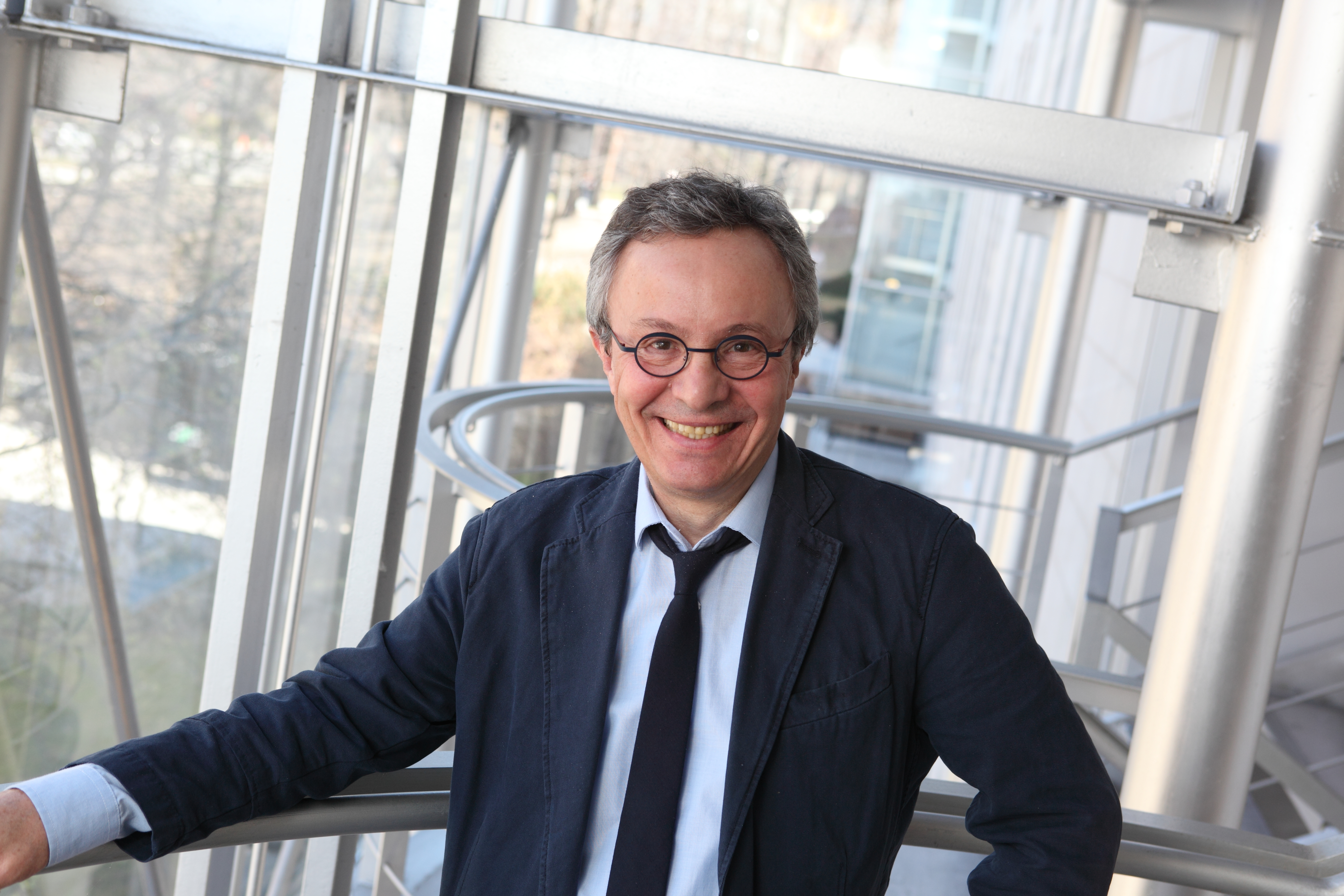 Photo of Thierry C. Pauchant May 2015